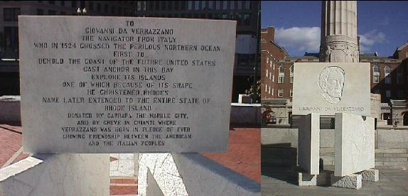 The Verrazzano Monument in Downtown Providence, Rhode Island